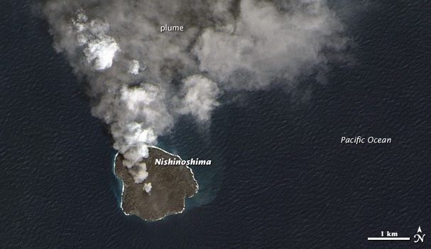 On March 1, 2015, the Operational Land Imager (OLI) on Landsat 8 captured this image of volcanic activity that continued at Nishinoshima. The volcano is part of a chain of islands located about 1,000 kilometers (600 miles) south of Tokyo. Previously, Nishinoshima merged with a small island that rose out of the sea in November 2013. For a time, the island was nicknamed “Snoopy Island” because of its resemblance to the famed cartoon character, but lava flows have since rounded out the landmass. Nishinoshima has grown to almost 2.5 square kilometers (1 square mile), according to a report by the Smithsonian Institution Global Volcanism Program.